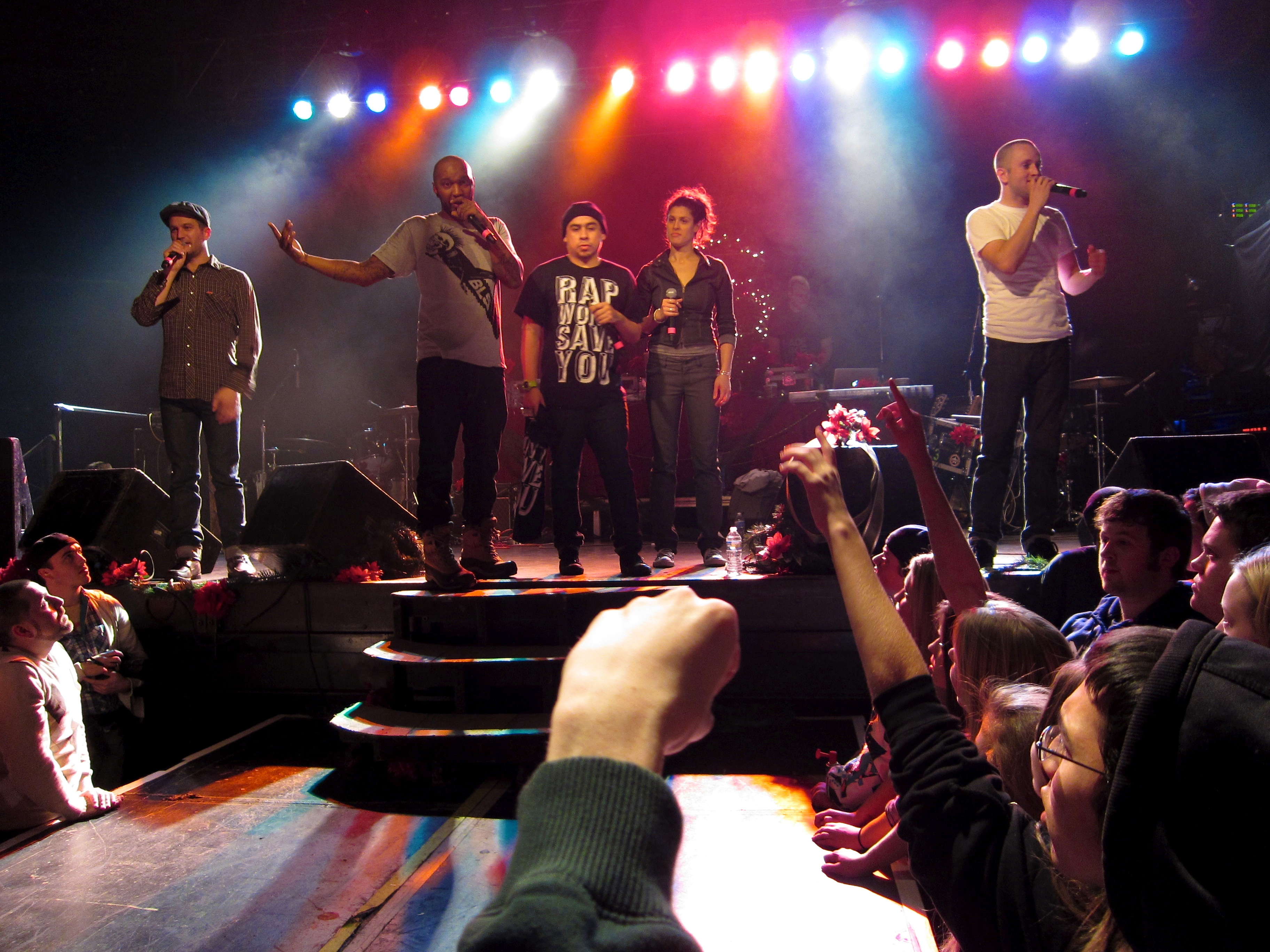 From left to right: Cecil Otter, P.O.S., Mike Mictlan, Dessa and Sim.